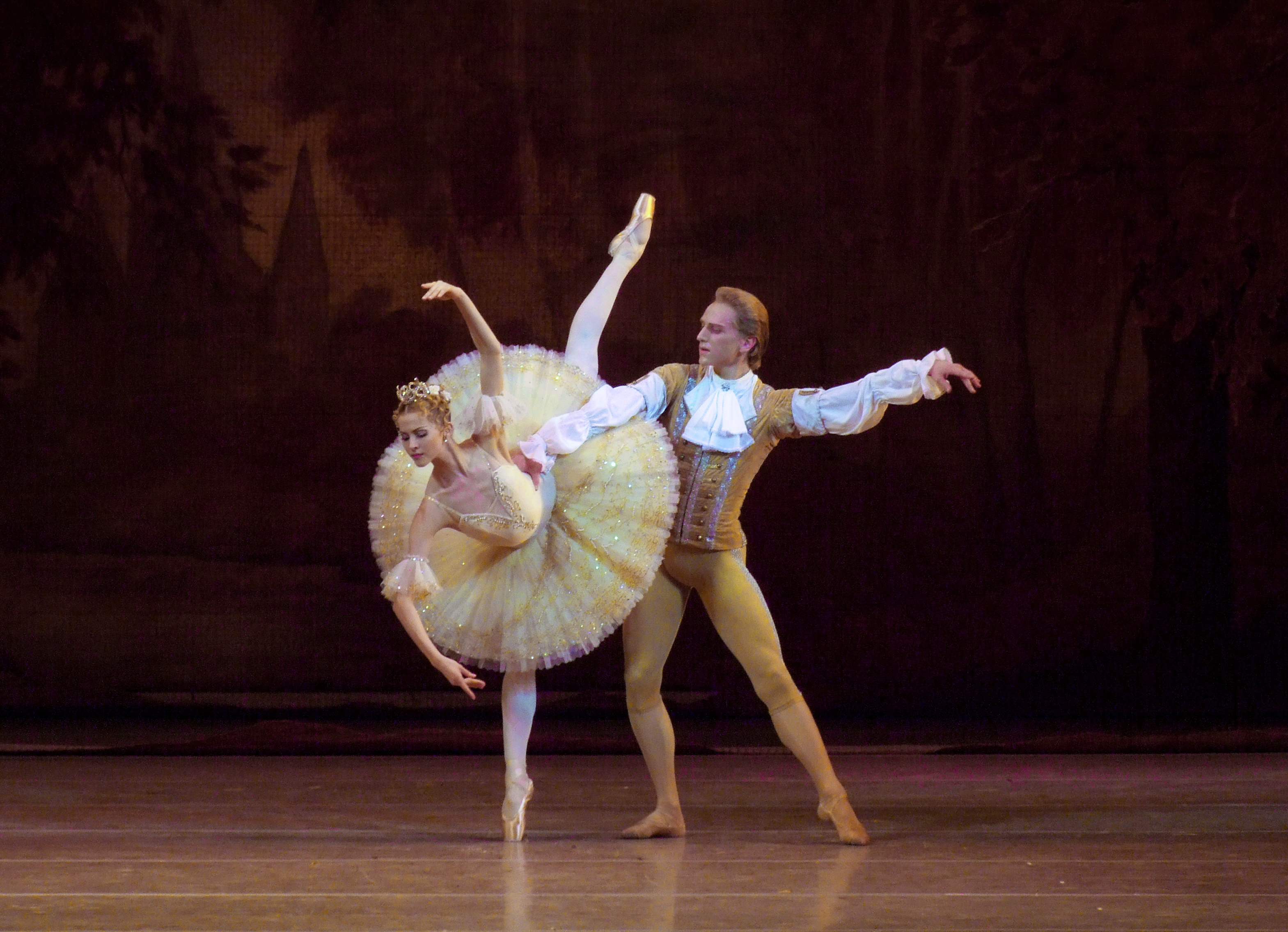 Alina Somova and David Hallberg in The Sleeping Beauty, 2010